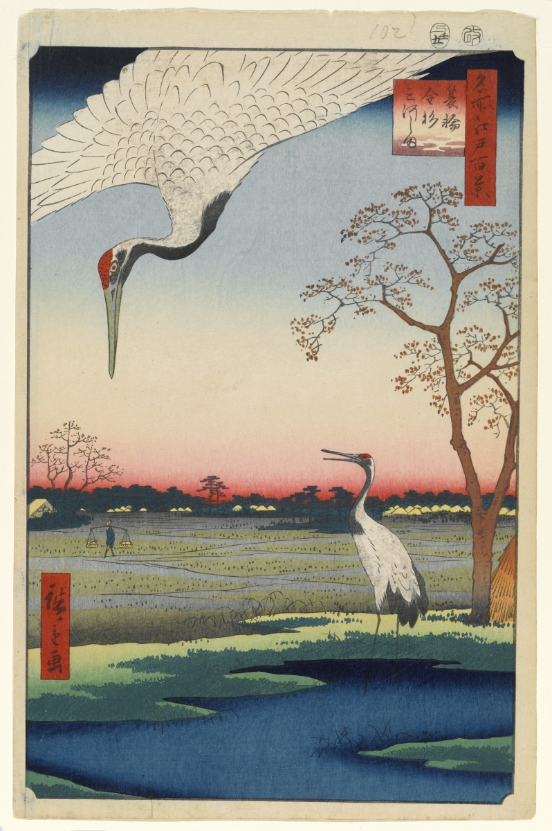 Part of the series One Hundred Famous Views of Edo, no. 102, part 4: Winter.